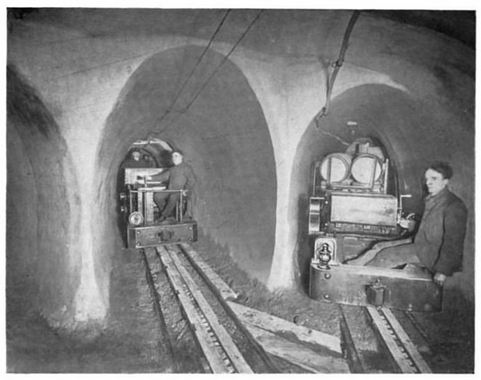 Original captions: Rapid Transit: "FREIGHT TRAIN AT STREET INTERSECTION -- CHICAGO"; The Technical World: "FREIGHT TRAINS AT STREET INTERSECTION." Captions from an almost identical photo identify this as a view looking north through the intersection of State and Randolph streets and identify the man driving the left locomotive as Superintendent George W. Jackson. Two locomotives on the Morgan third-rail rack trackage of the Illinois Tunnel Company. The locomotives were built by the Goodman Equipment Corporation. This is a composite of scans of 4 different copies of 'Rapid Transit in New York', scaled to match and overlayed to mute the moiré patterns in the scan and sharpen the result.